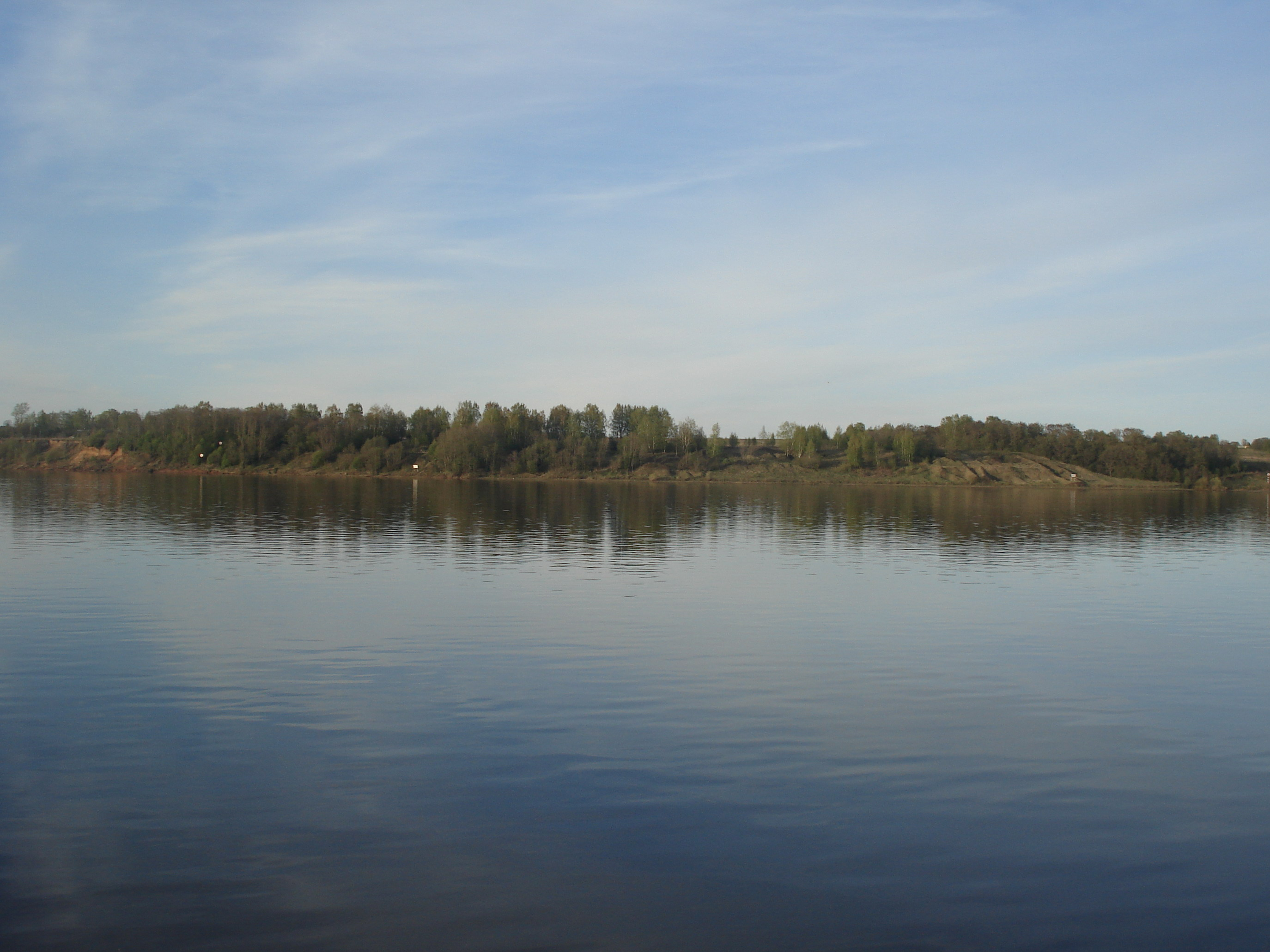 Волга в Тутаевском районе Ярославской области около посёлка Микляиха